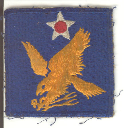 Low resolution scan of WWII 2nd AF patch. Other information none